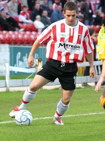 K. McHugh. Cropped personal photo.